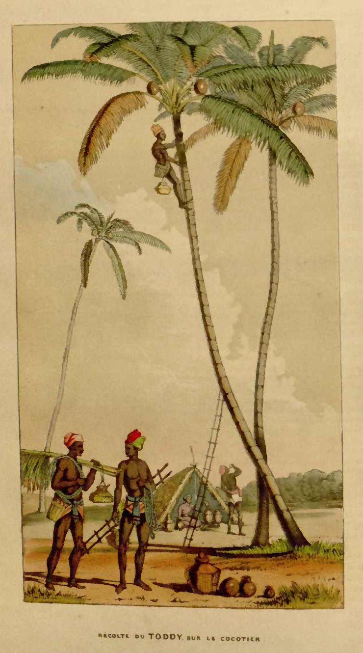 Toddy collectors at work on Cocos nucifera palms